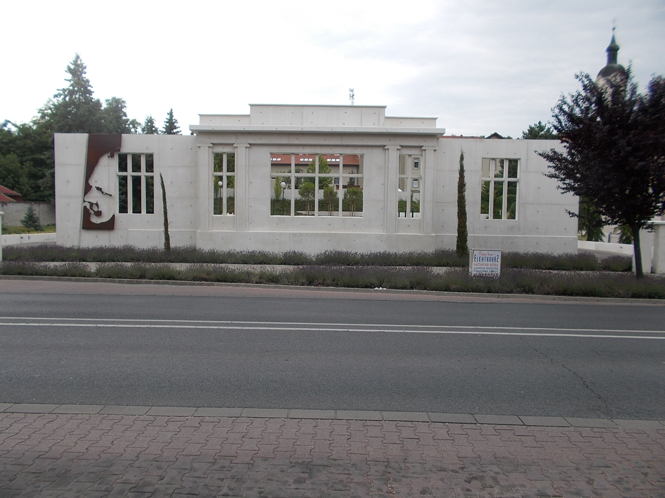 Schmidt Sándor agora, wall. - Bécsi Street, Dorog, Komárom-Esztergom County, Hungary.